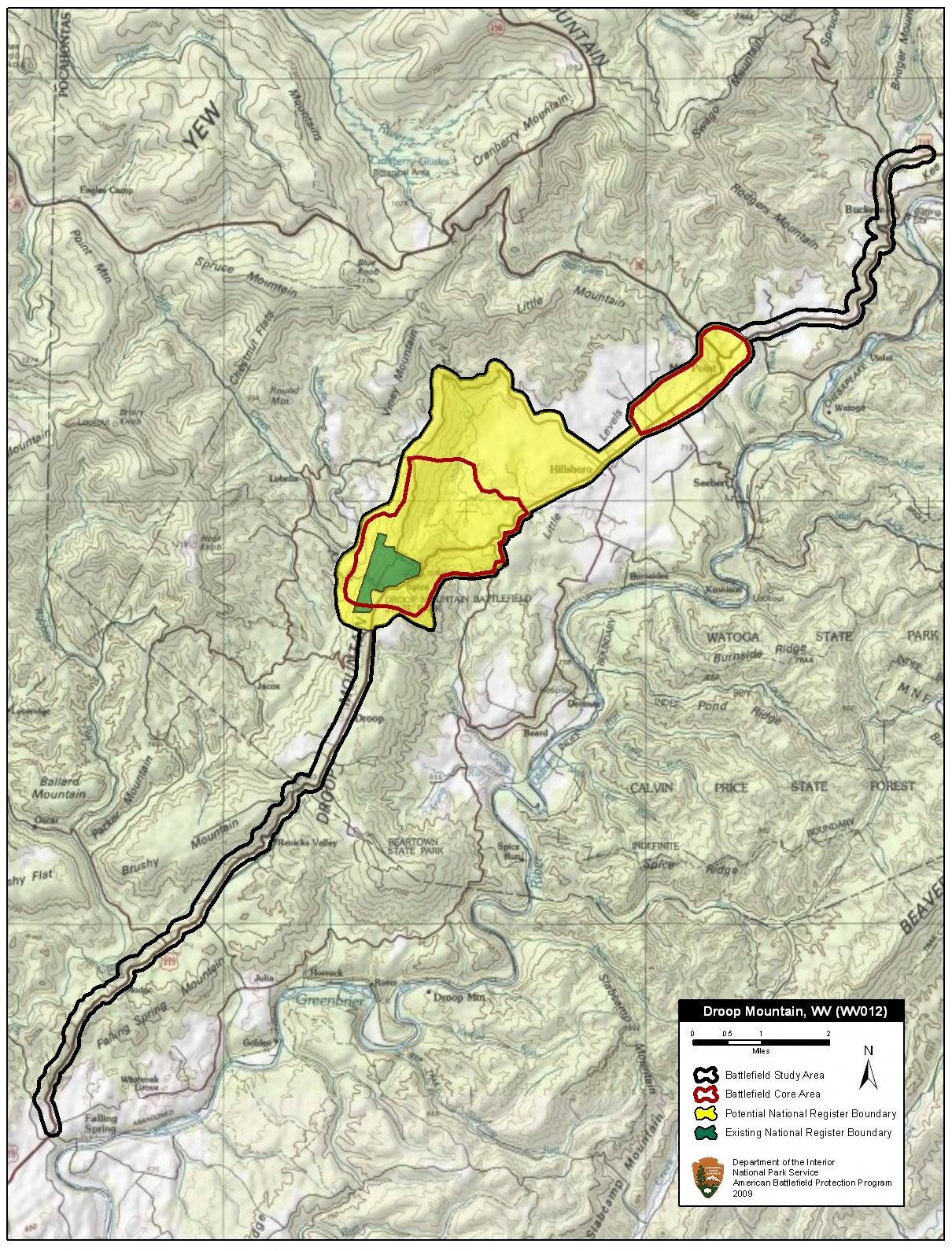 Map of battlefield core and study areas.